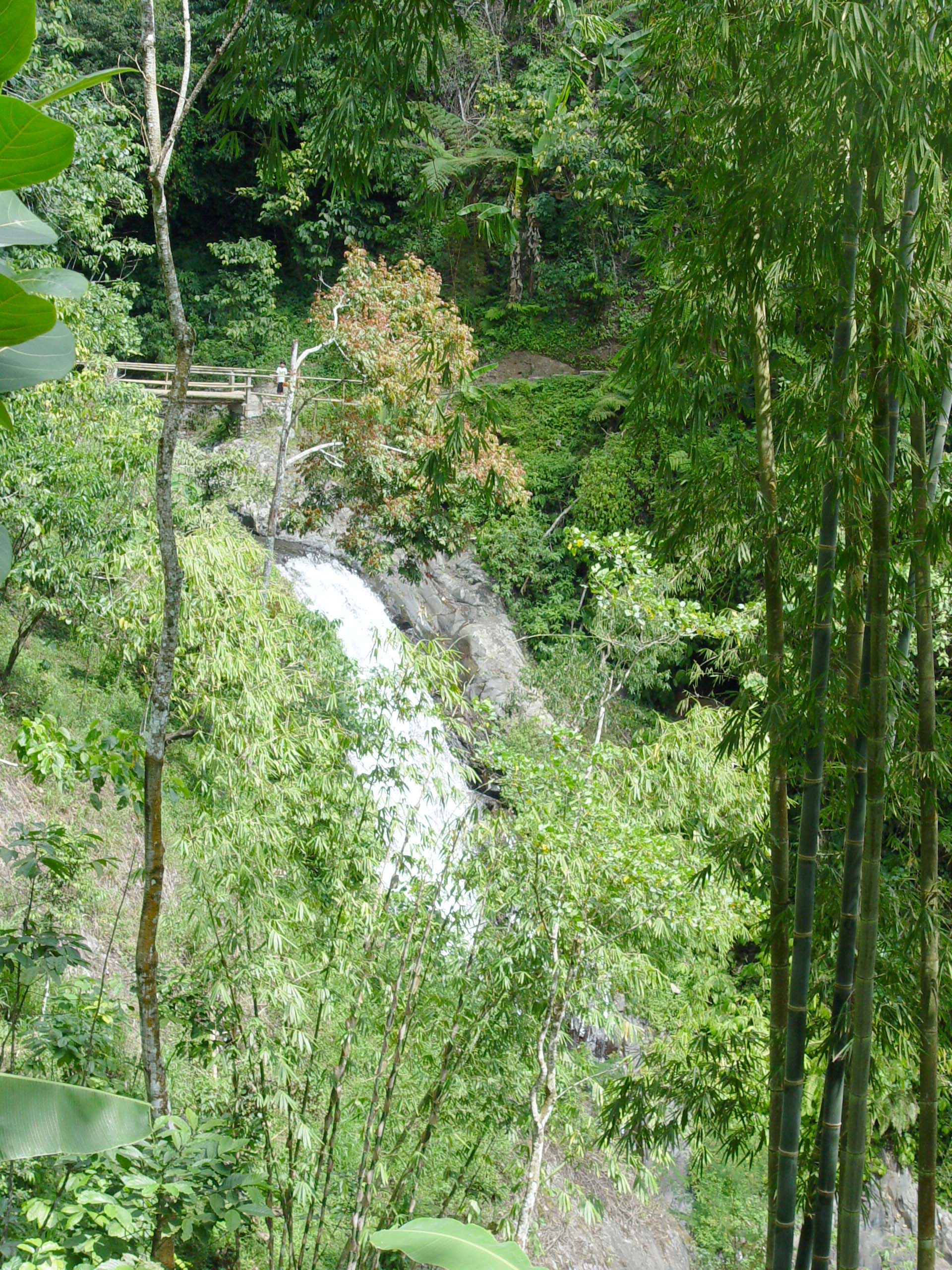 Gitgit waterfall, Sukasada, Buleleng, Bali, Indonesia.